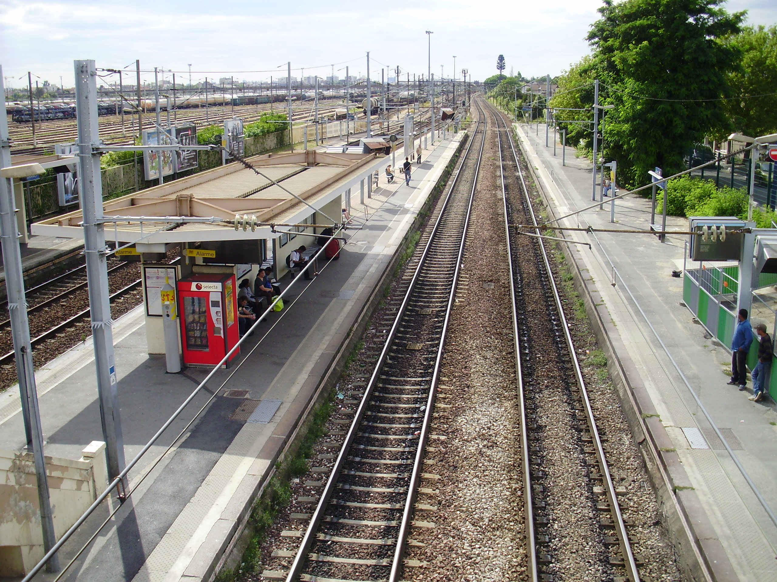 Drancy station, Seine-Saint-Denis, France (view of tracks from the foot-bridge by looking to Paris)